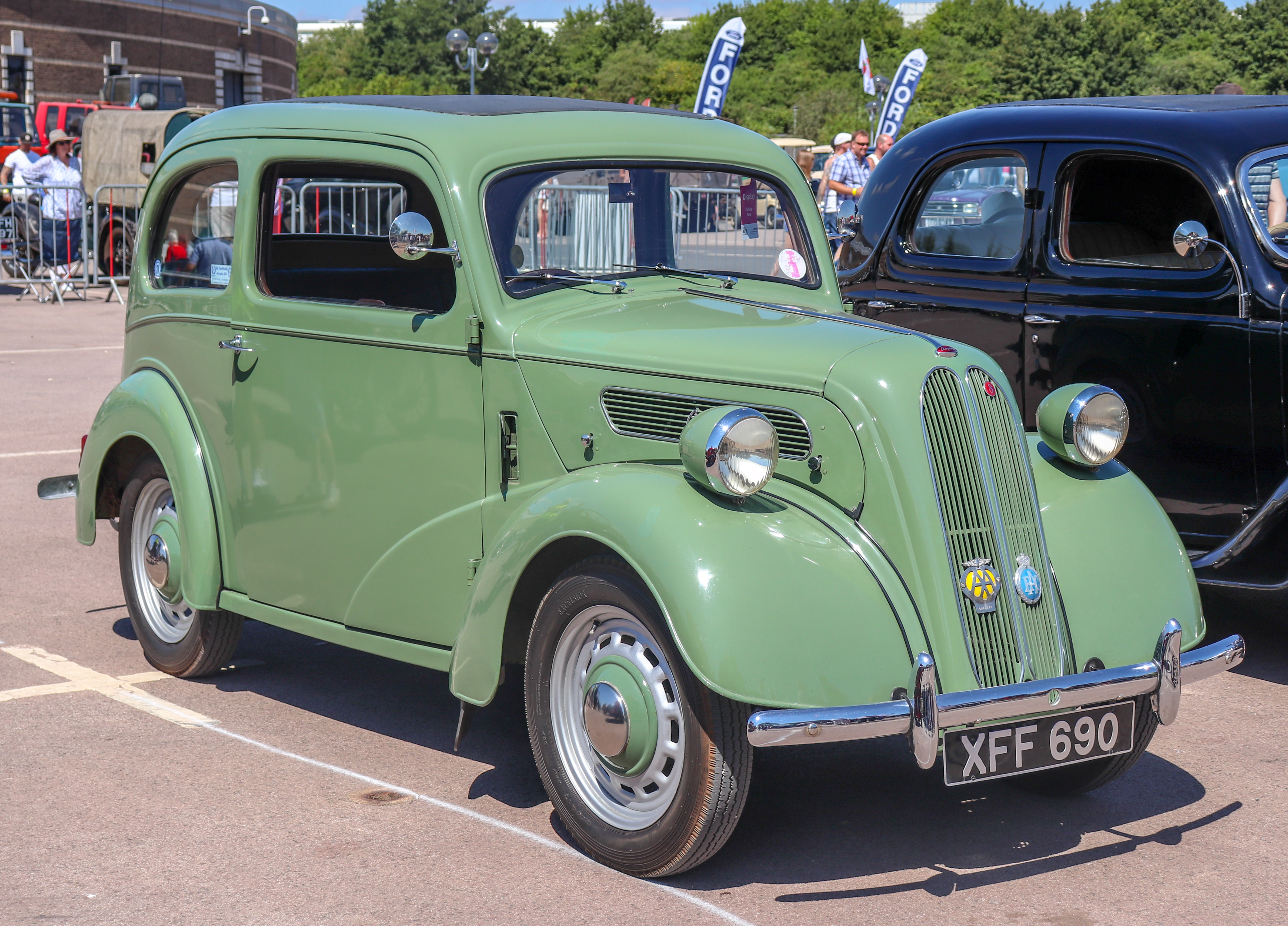 1953 Ford Anglia E494A 930cc Taken at the British Motor Museum Old Ford Rally 2018, Gaydon